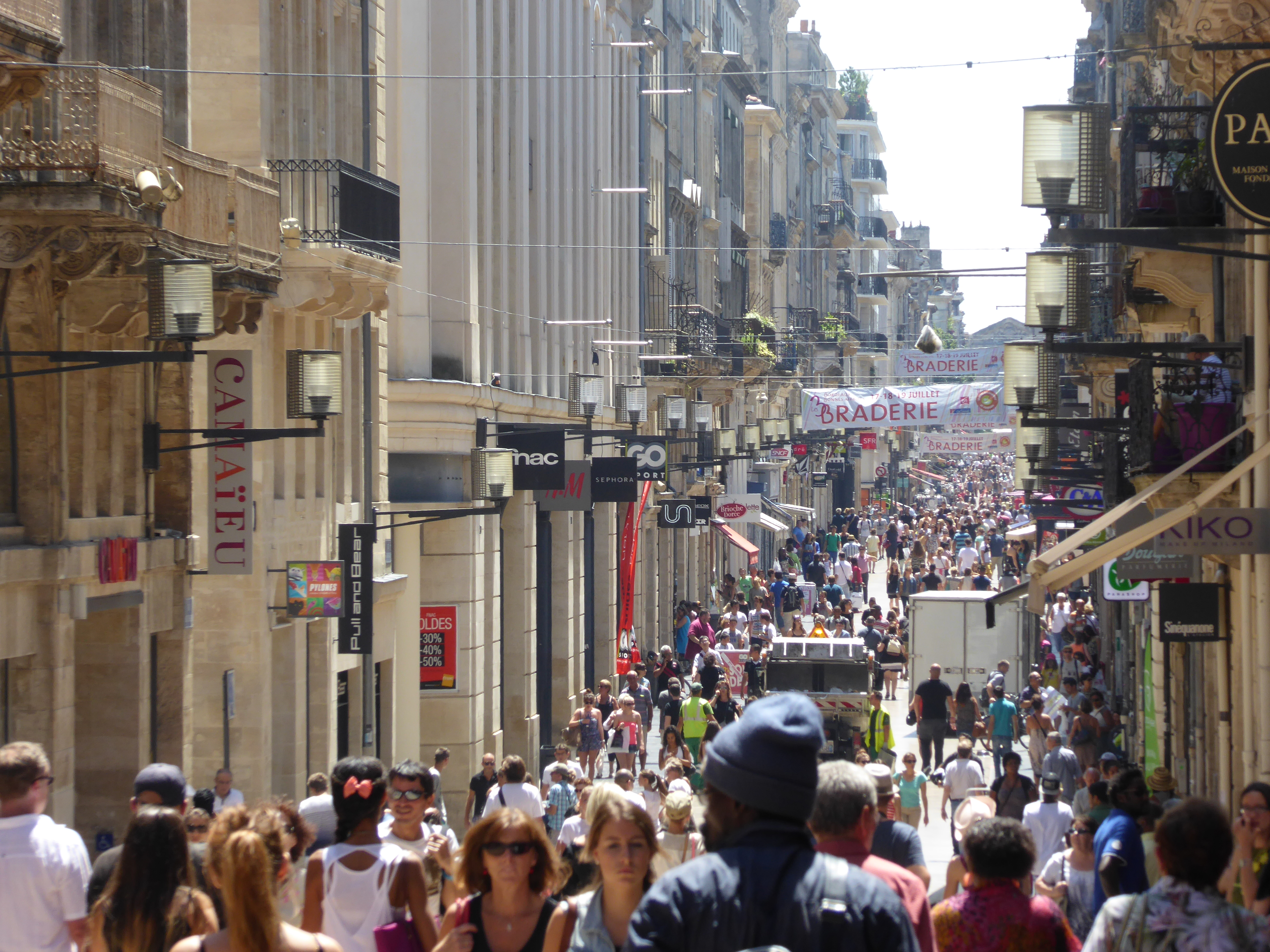 Rue Sainte-Catherine, Bordeaux, France, July 2014